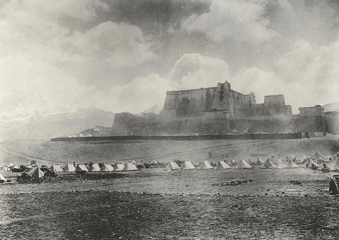 Forces for Younghusband Expedition to Tibet camped under the Phari Dzong fortress.